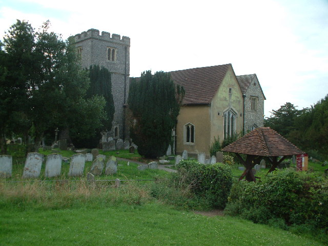 Church of St John the Baptist, West Wickham BR4. The parish church, built in the 15th century on site of a much older church.